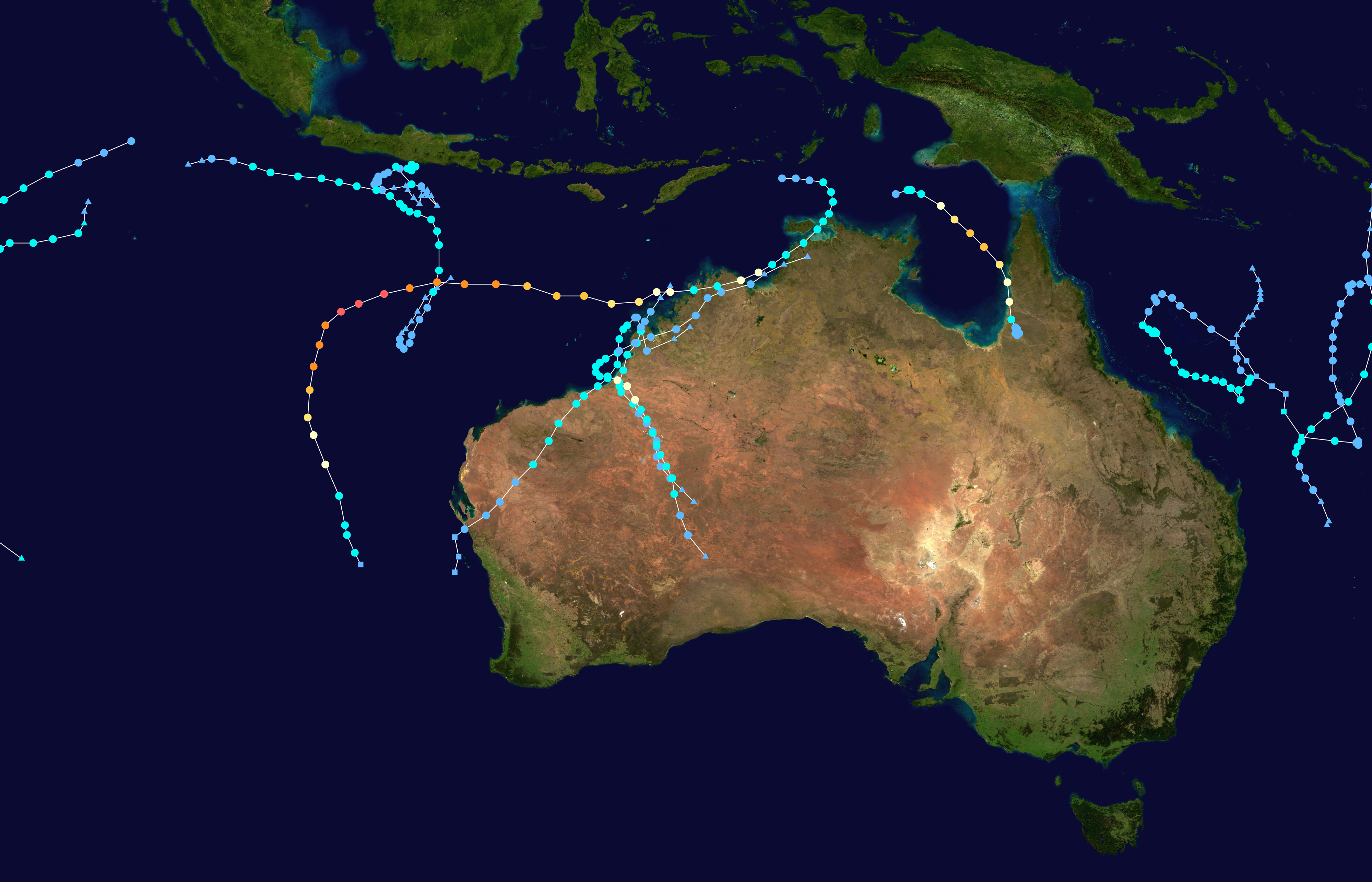 This map shows the tracks of all tropical cyclones in the 2017-18 Australian region cyclone season. The points show the location of each storm at 6-hour intervals. The colour represents the storm's maximum sustained wind speeds as classified in the Saffir-Simpson Hurricane Scale (see below), and the shape of the data points represent the type of the storm. Saffir–Simpson scale Tropical depression≤38 mph≤62 km/h Category 3111–129 mph178–208 km/h Tropical storm39–73 mph63–118 km/h Category 4130–156 mph209–251 km/h Category 174–95 mph119–153 km/h Category 5≥157 mph≥252 km/h Category 296–110 mph154–177 km/h Unknown Storm type Tropical cyclone Subtropical cyclone Extratropical cyclone / Remnant low / Tropical disturbance / Monsoon depression